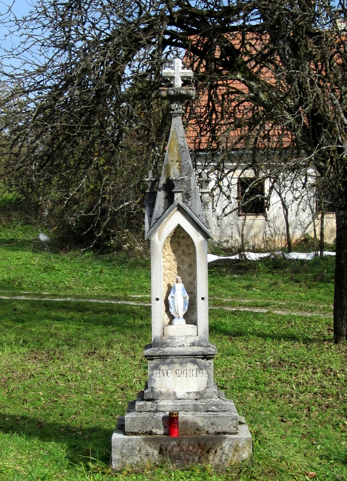 Wayside shrine southwest of Pance, City Municipality of Ljubljana, Slovenia.